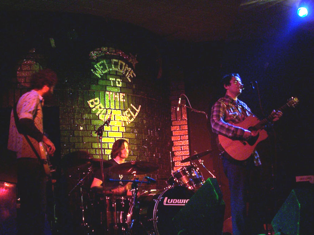 The Cape May